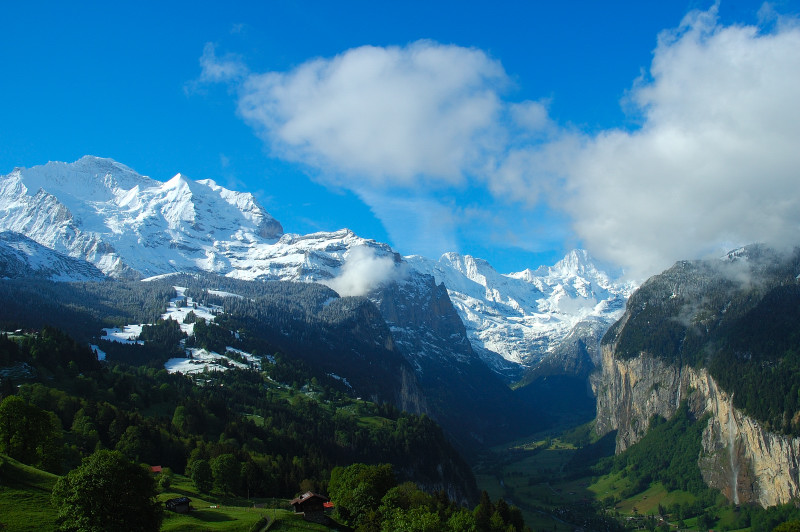 Lauterbrunnental, Switzerland